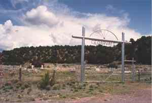 White Oaks, Cedarvalle CemeteryWhite Oaks Historic District